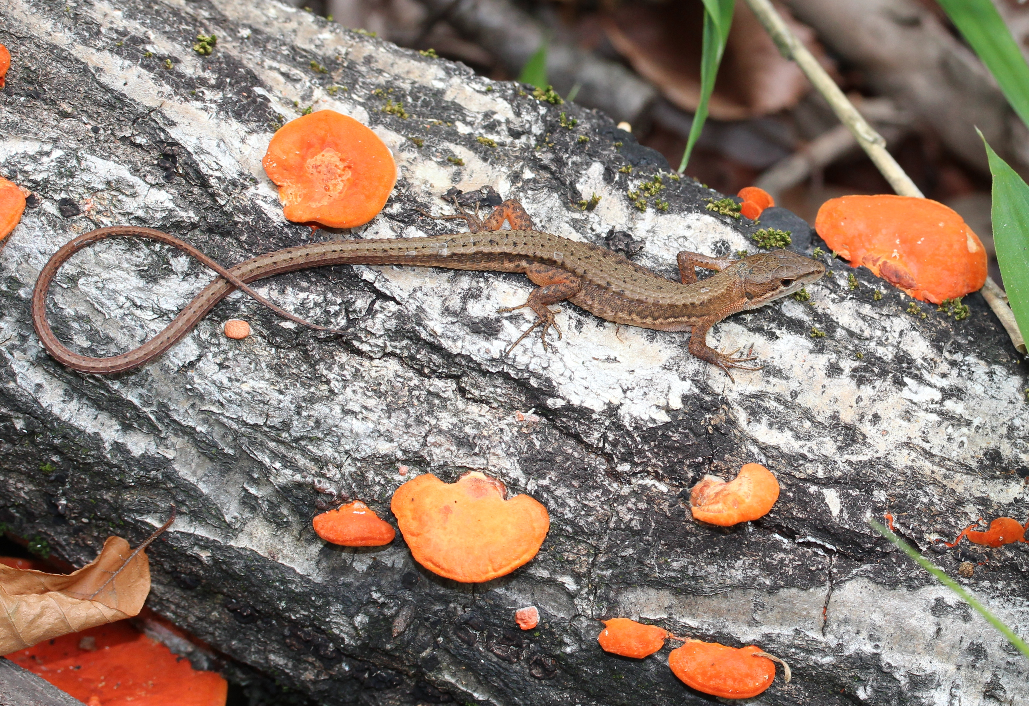 Takydromus tachydromoides in Kasugai, Aichi prefecture, Japan.